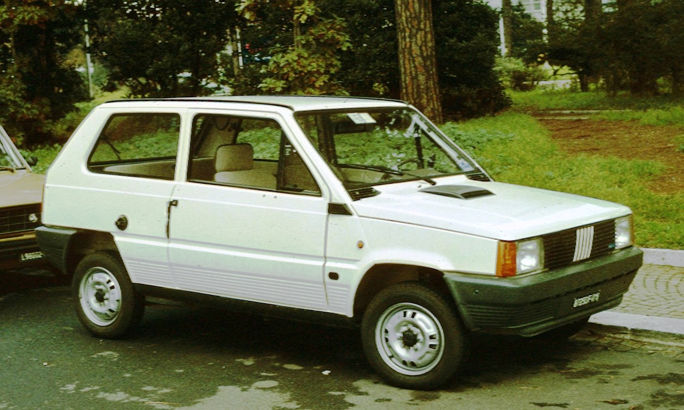 Fiat Panda first generation post facelift